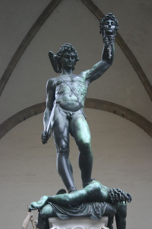 Perseus and Medusa, Firenze, Italy.